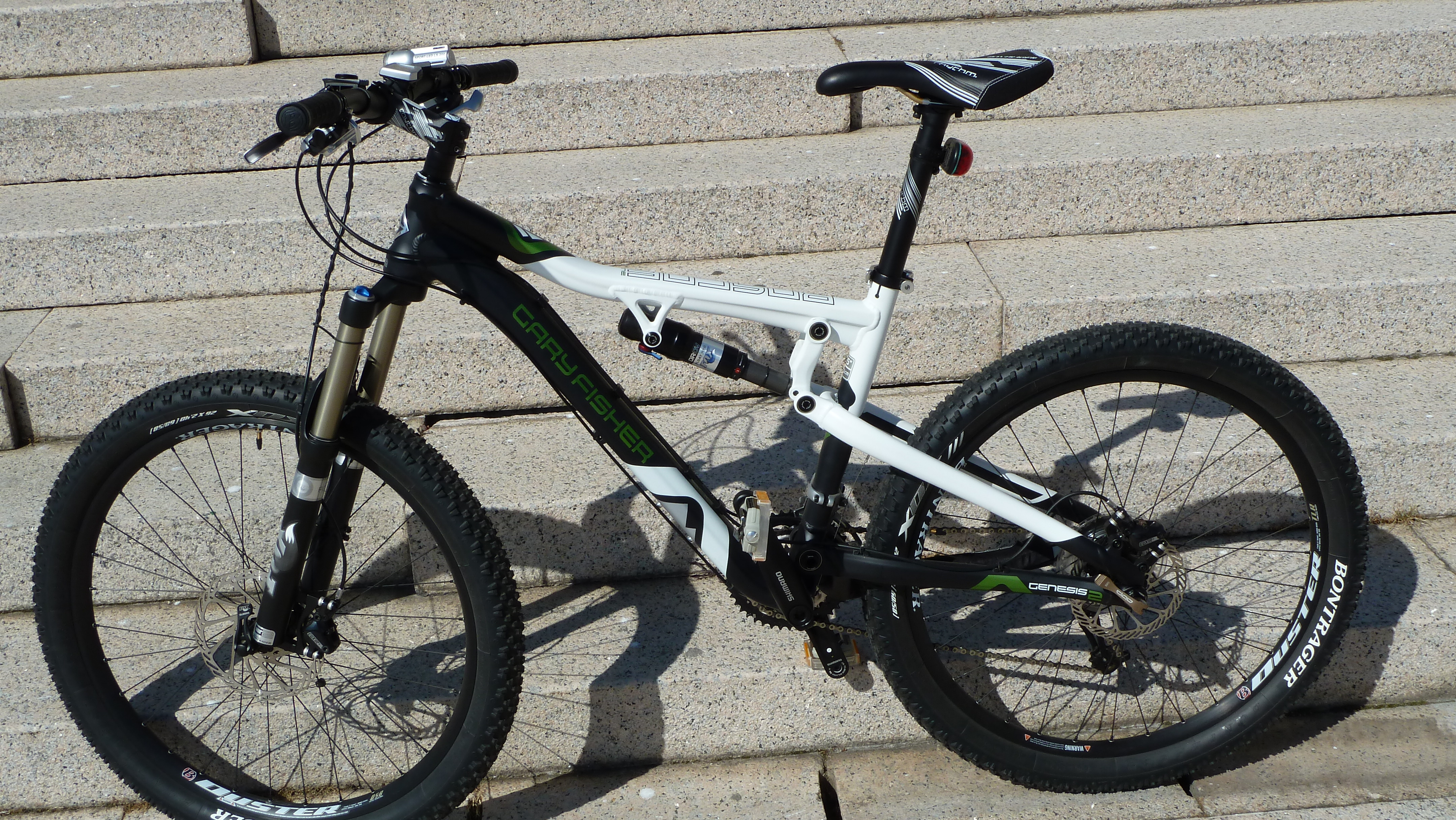 Bike of All Mountain. Gary Fisher. Model: Roscoe One. 2010